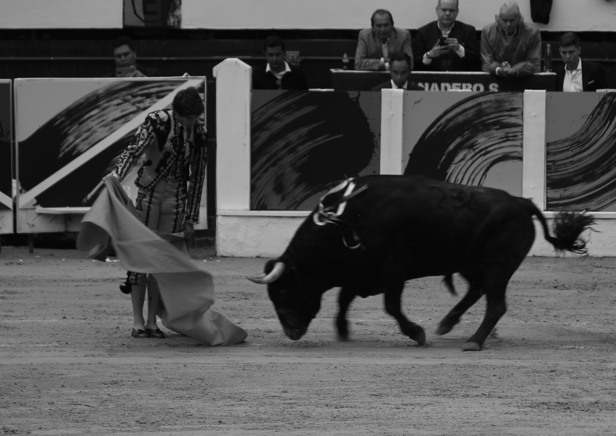 Tercera corrida de abono de 2019 en Bogotá